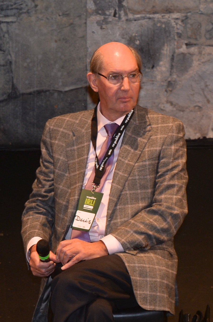 Karlin Lillington Journalist Irish Times Daragh Murray Director of the Human Rights Centre Clinic University of Essex Dennis Jennings Managing Director Knous Ltd. Credits: re:publica/ Justin Farrelly (CC BY 2.0)